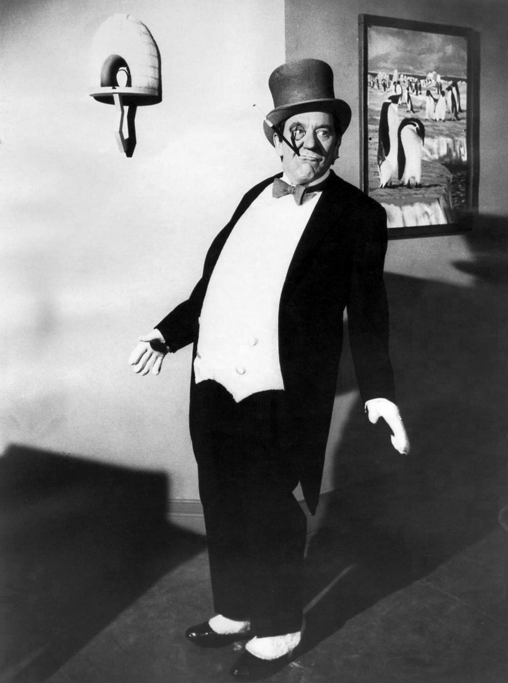 Photo of Burgess Meredith as The Penguin from the television program Batman.